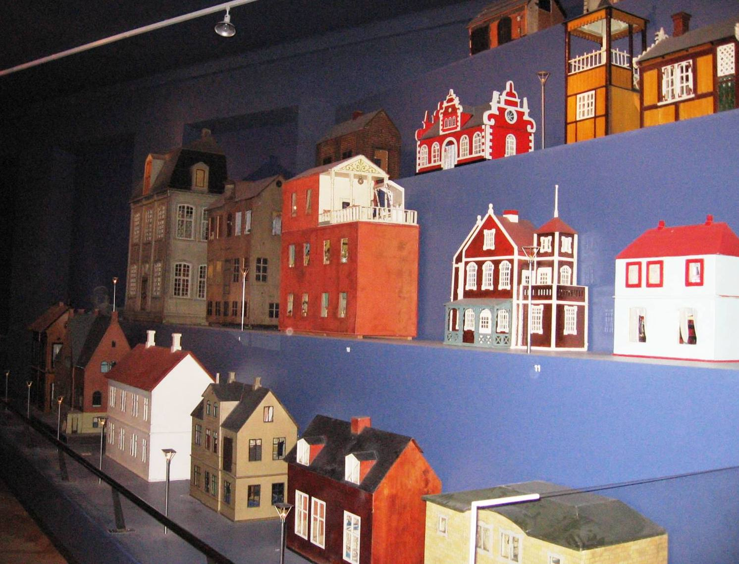 Dollhouse, Copenhagen National Museum, 2013.